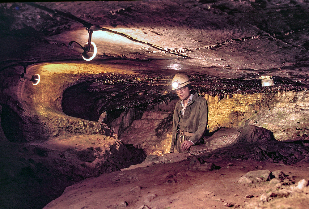 A passage within Kitley Show Cave, Yealmpton, Devon. The cave is now closed, and this picture was taken in the 1980s.